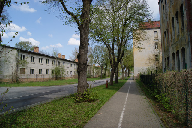 Disused barracks on the approach to the Germany/Poland border